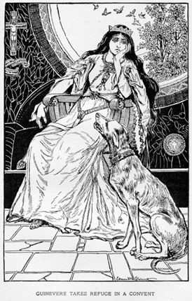 Edmund Henry Garrett's illustration for Legends of King Arthur and His Court by Frances Nimmo Greene.